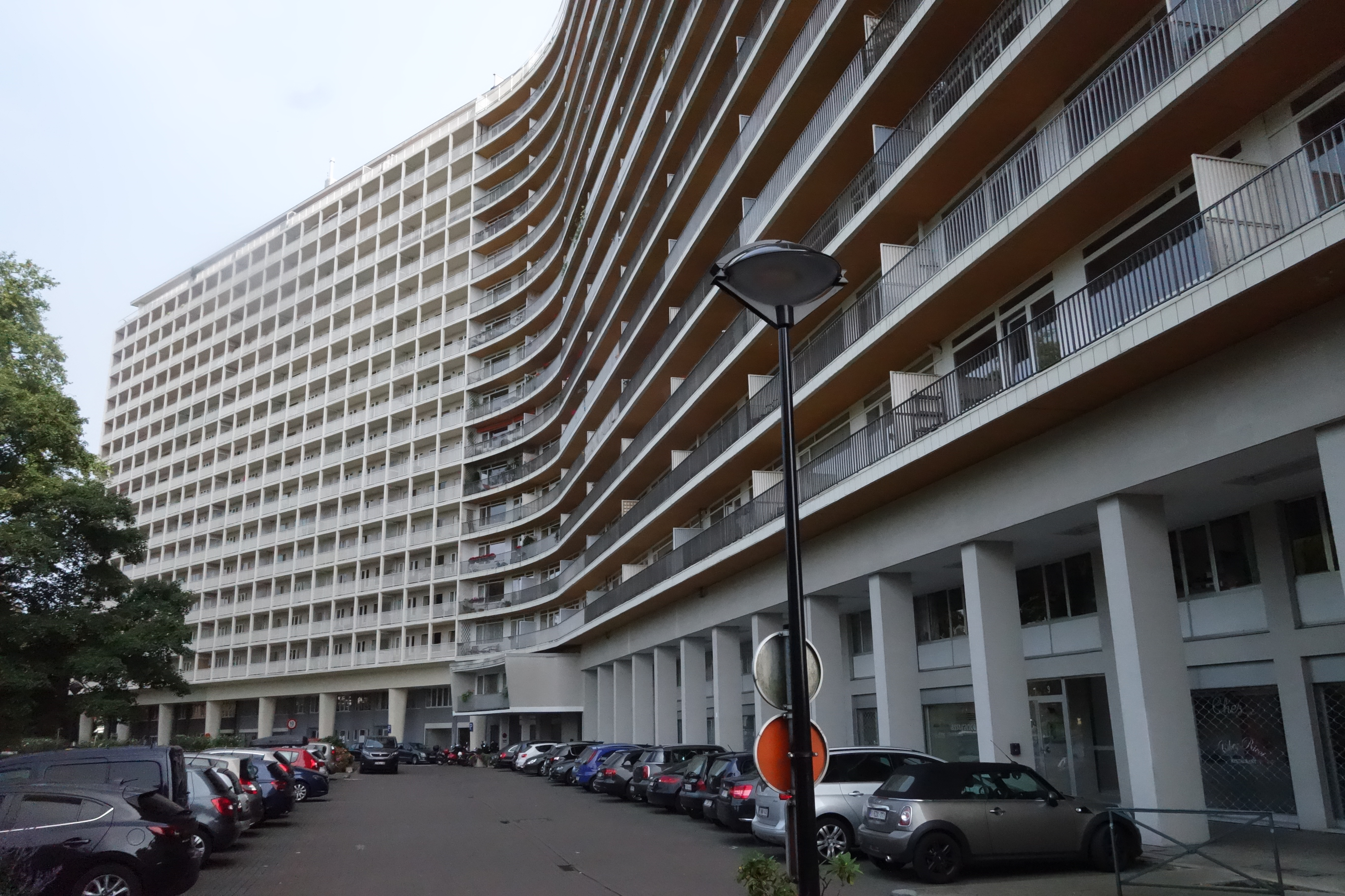 La Magnanerie